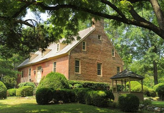 Western view of Bel Air Plantation 2013